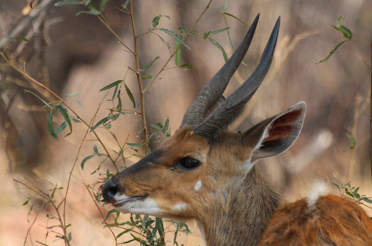 Bushbuck at Borakalalo National Park, South Africa